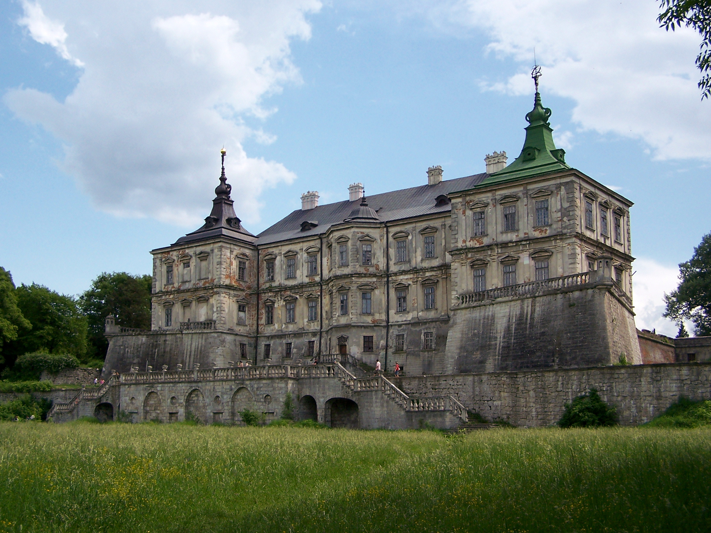 The castle in Podhorce (Ukraine).